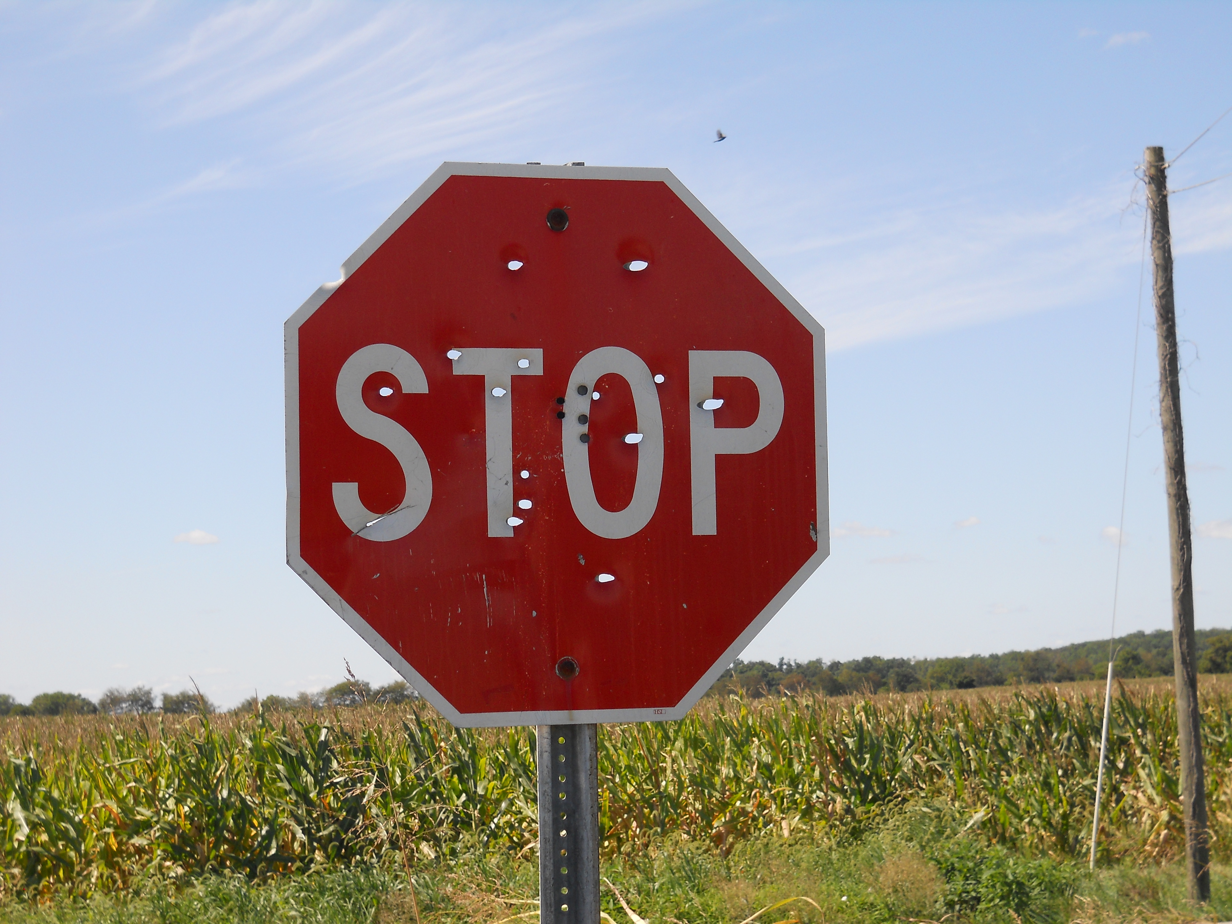 Target practice, Southern Indiana style